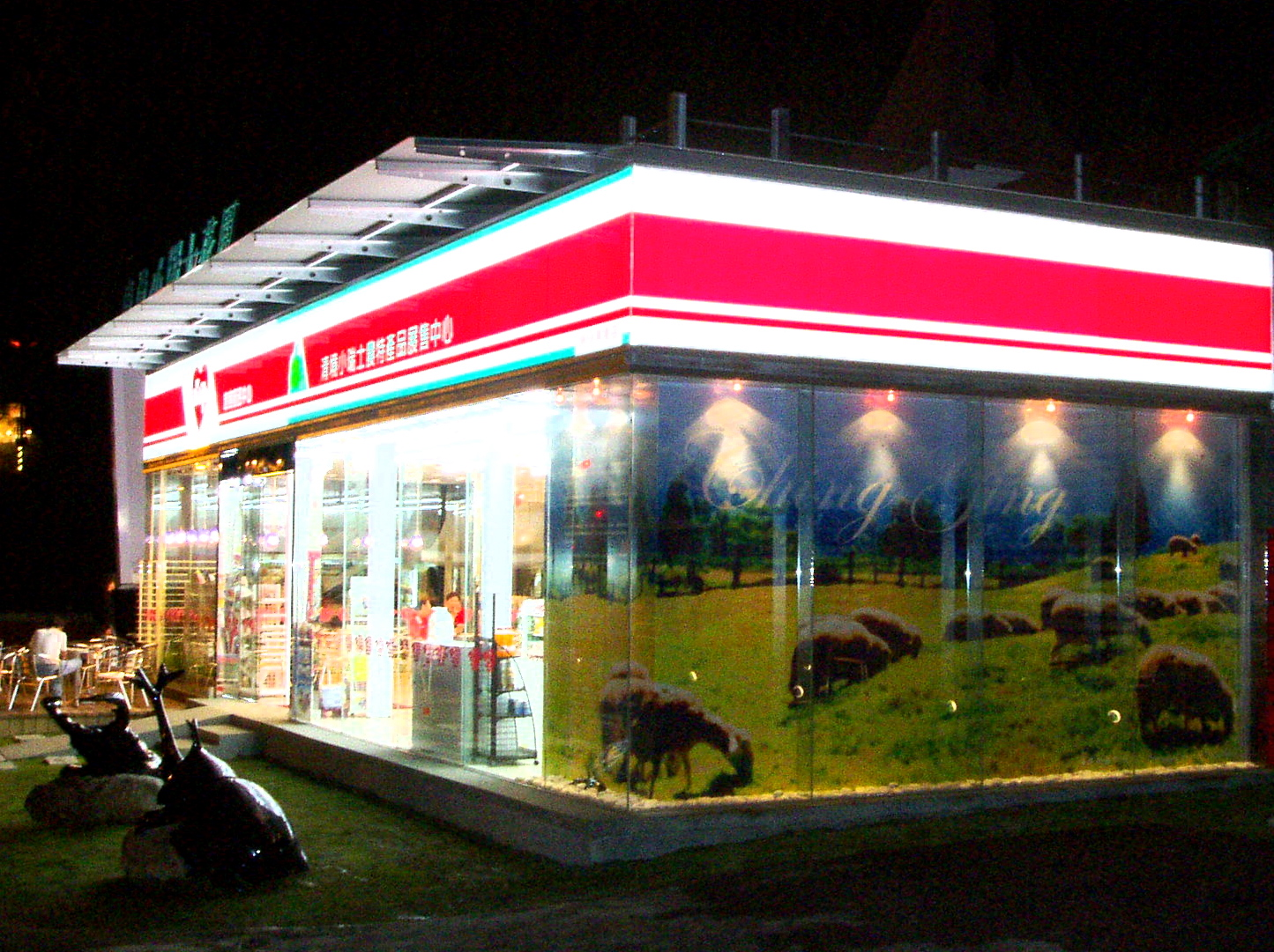 Hi-Life Nantou Qingjing Store was a convenience store in Qingjing Farm, and was closed in 2008.